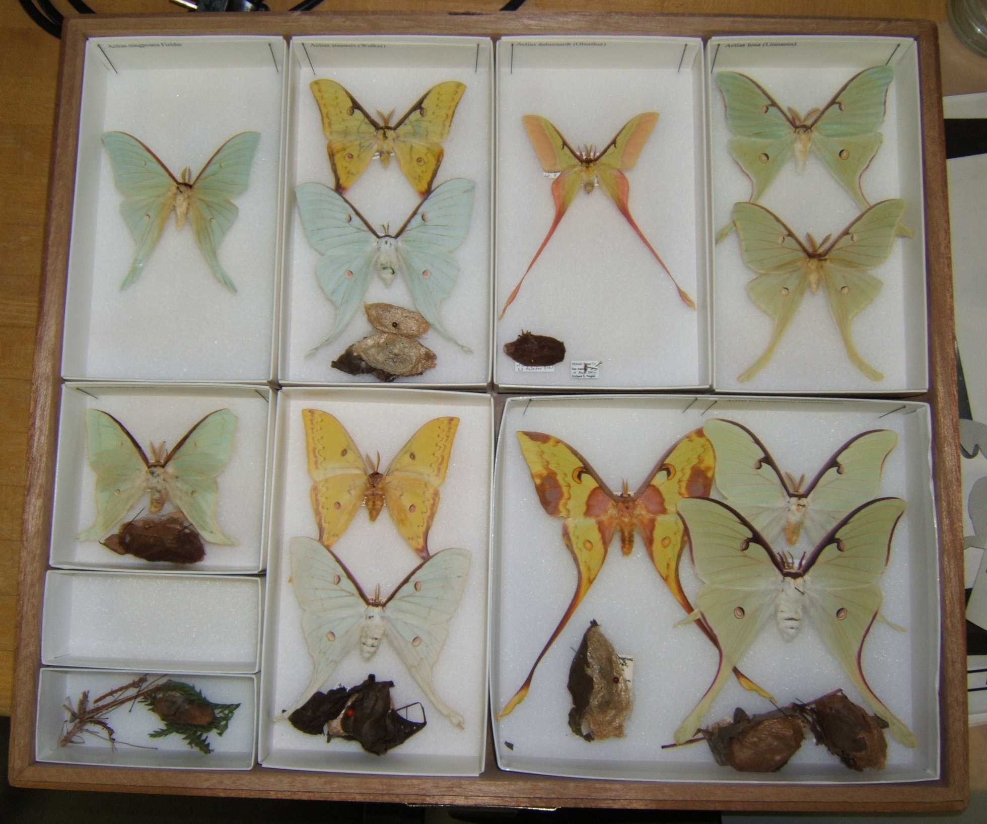 Variation within the Actias Genus taken by Shawn Hanrahan at the Insect Collection at the Texas A&M University in College Station, Texas.